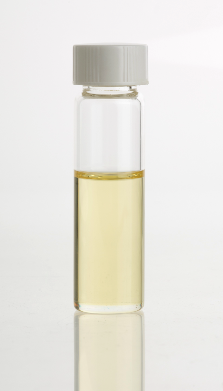 Glass vial containing Angelica (Angelica archangelica) Essential Oil